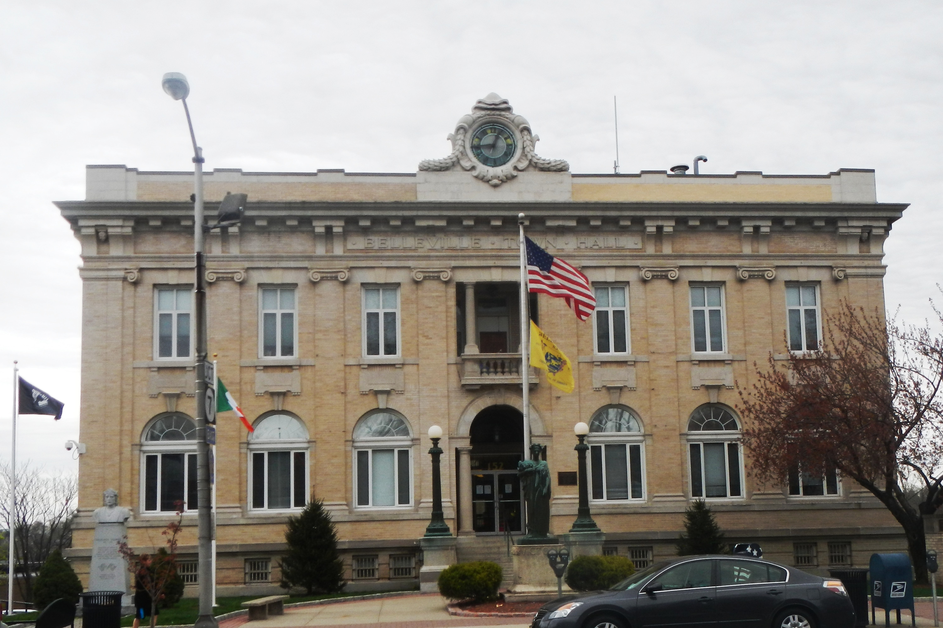 Looking east at town hall on a cloudy afternoon.